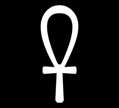 Kemetic symbol of Ankh. It represents the life and the force of the Netjer.